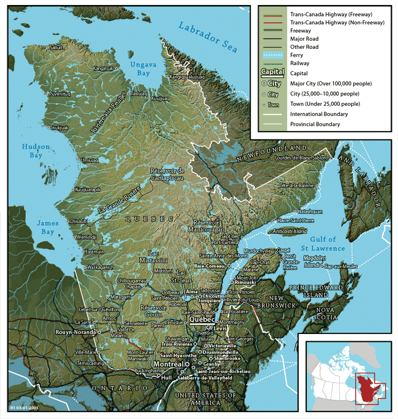 Map of Québec